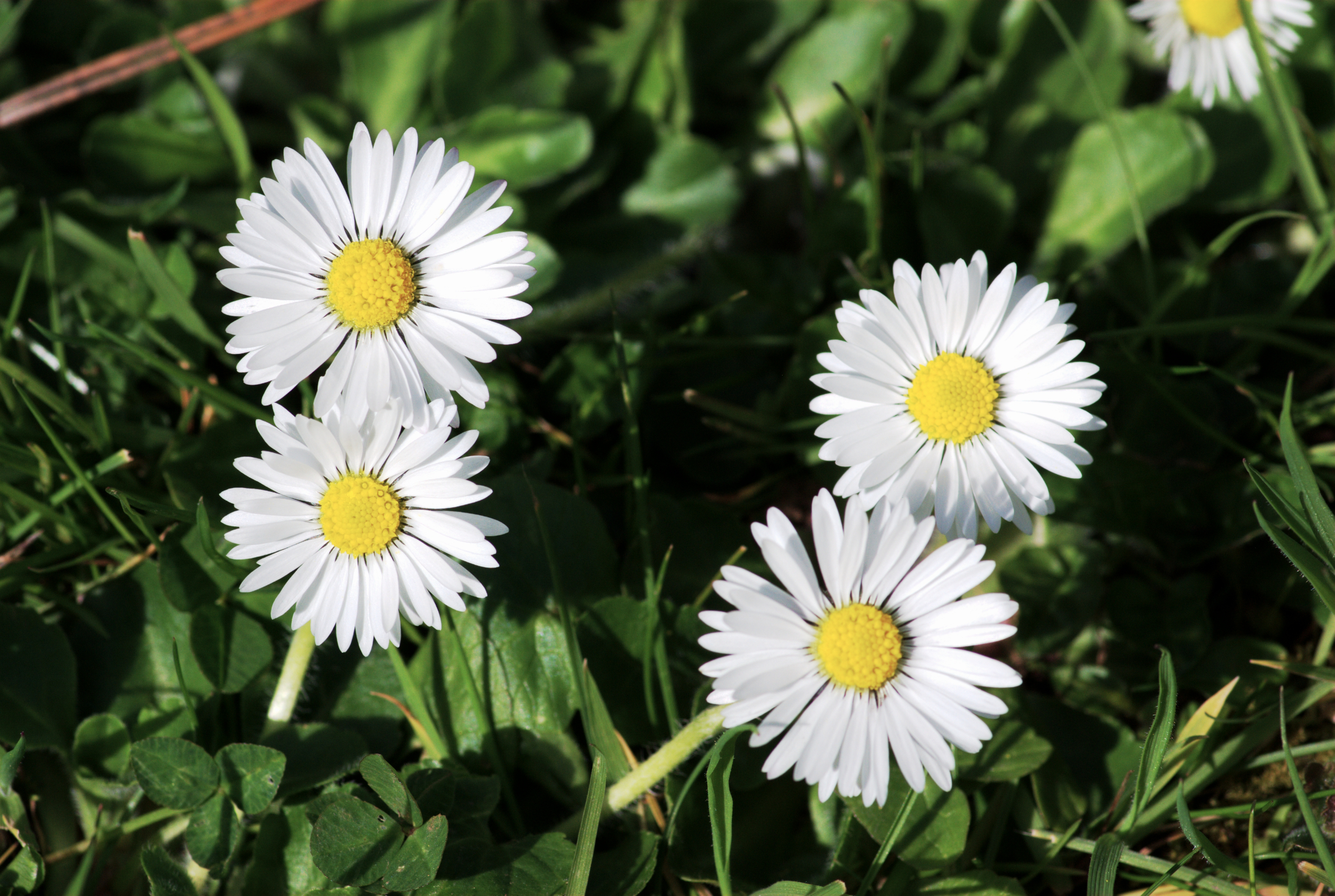 Bellis perennis